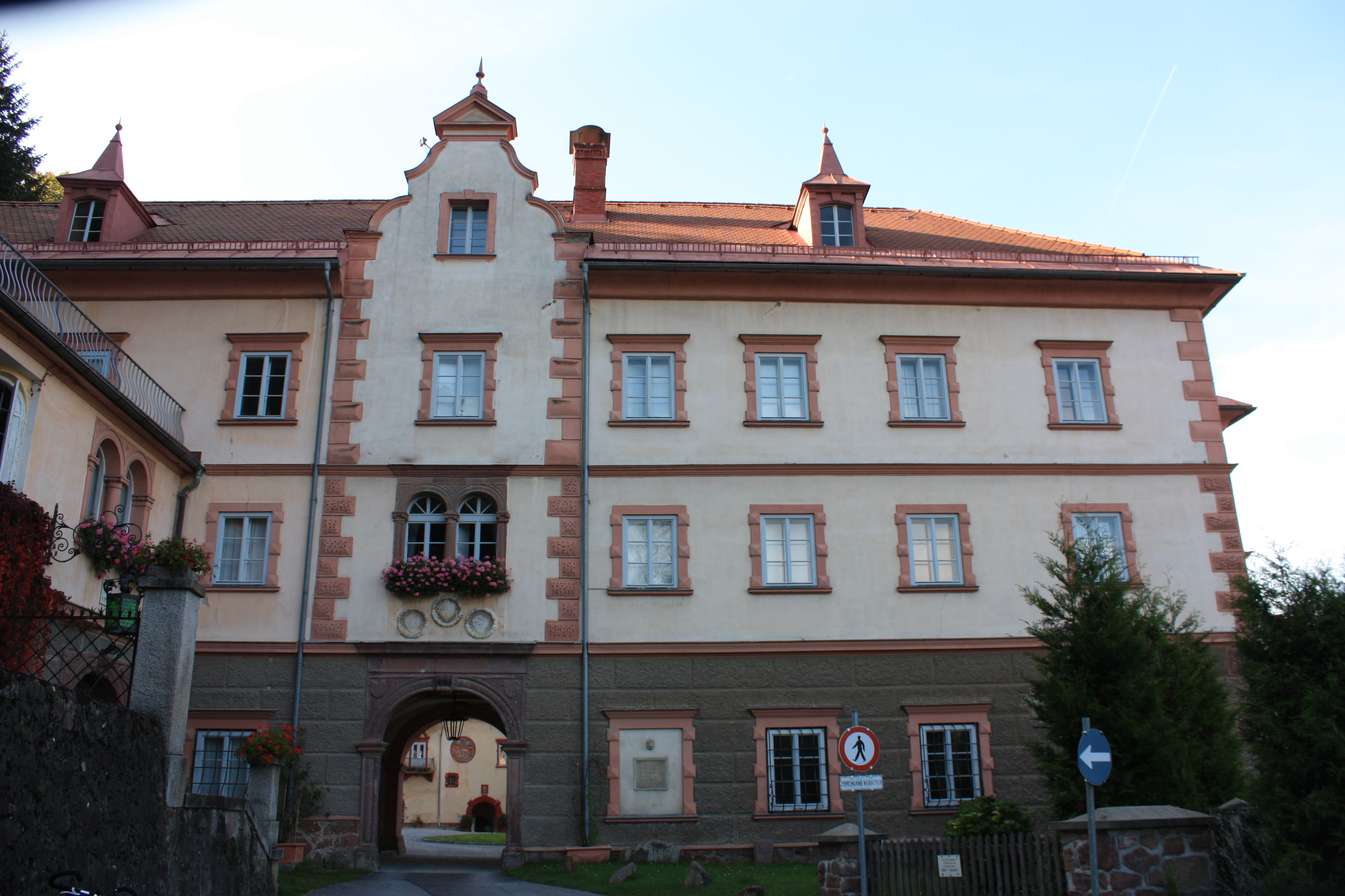 Paternion castle Locality: Paternion Community:Paternion